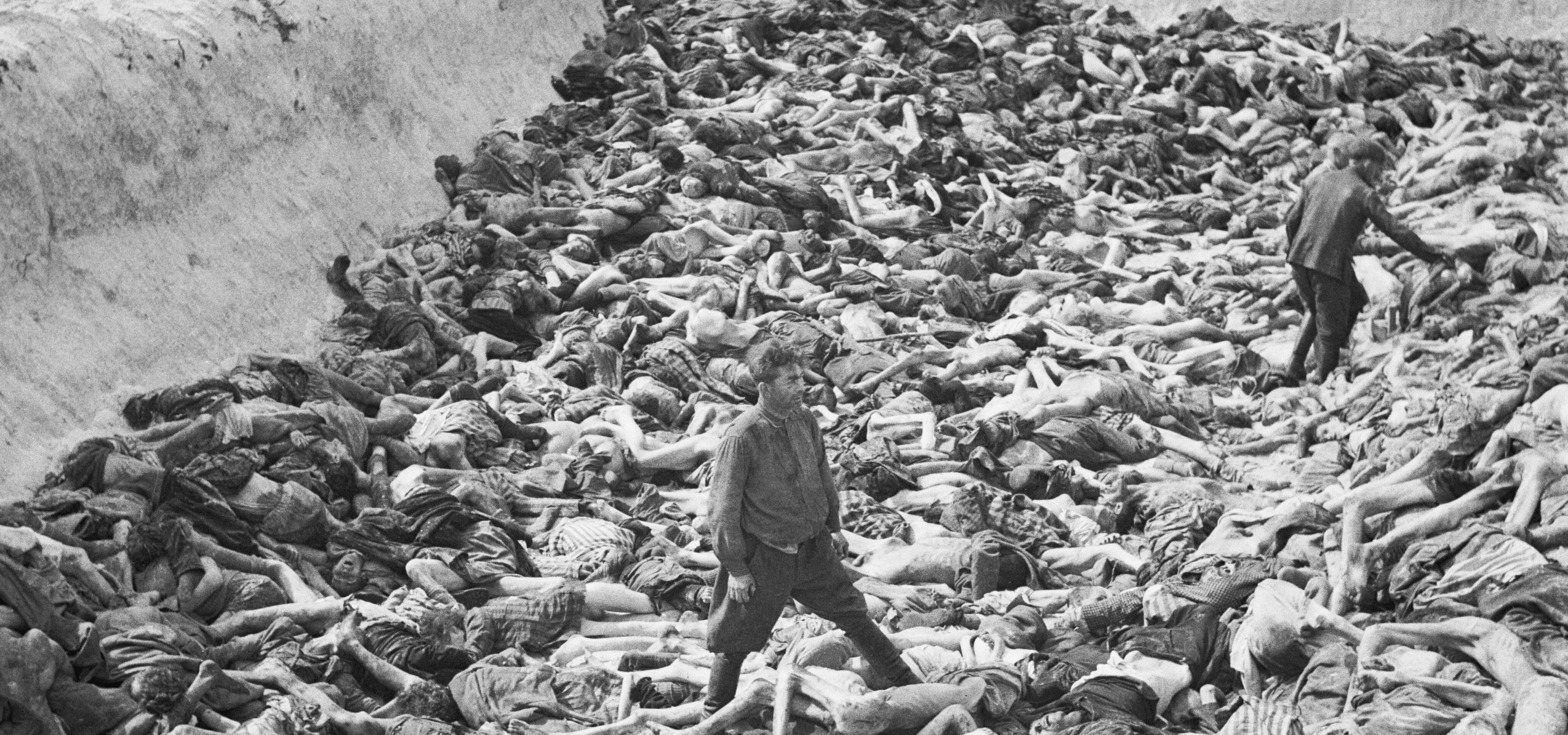 Nazi physician Fritz Klein stands inside a mass grave in the Bergen-Belsen concentration camp after it's liberation in april 1945